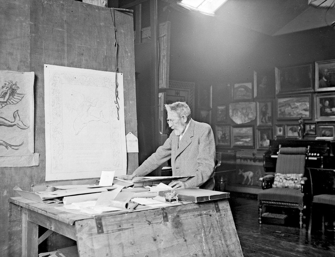 Joachim Skovgaard in his studio in Ronsevænget in Østerbro, Copenhagen, Denmark.